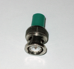 10BASE2 Cable end terminator. Picture taken by Duncan Lock and released into the Public Domain.